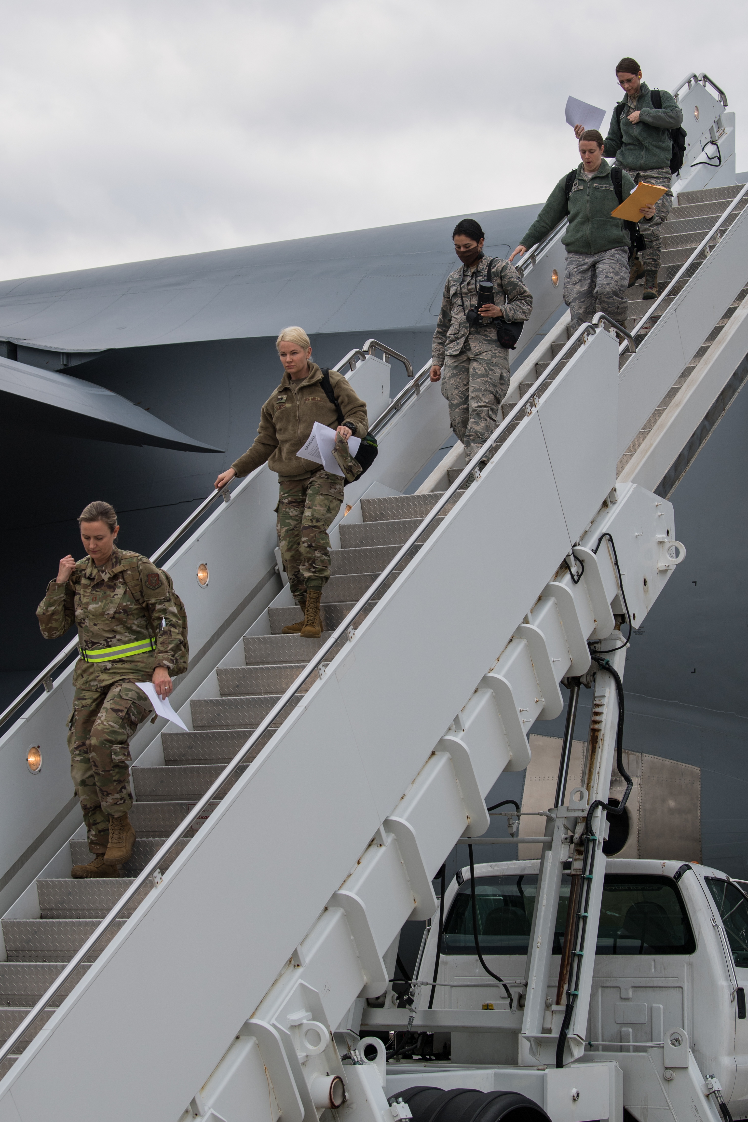 A U.S. Air Force Reserve C-5M Super Galaxy with the 68th Airlift Squadron, 433rd Airlift Wing, offloads medical personnel at Joint Base McGuire-Dix-Lakehurst, N.J., after stops at Lackland Air Force Base and Naval Air Station Joint Reserve Base Fort Worth, to support the residents of New York City in the fight against COVID-19, April 5, 2020. This deployment is part of a larger mobilization package of more than 120 doctors, nurses and respiratory technicians that Air Force Reserve units across the nation provided over the past forty-eight hours in support of COVID-19 response to take care of Americans.